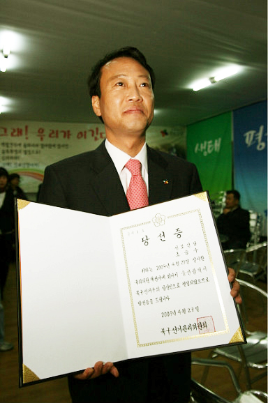 Jo Seung Su, who win the election at Ulsan Buk-gu in Apr. 29, is shouting for joy with certificate.